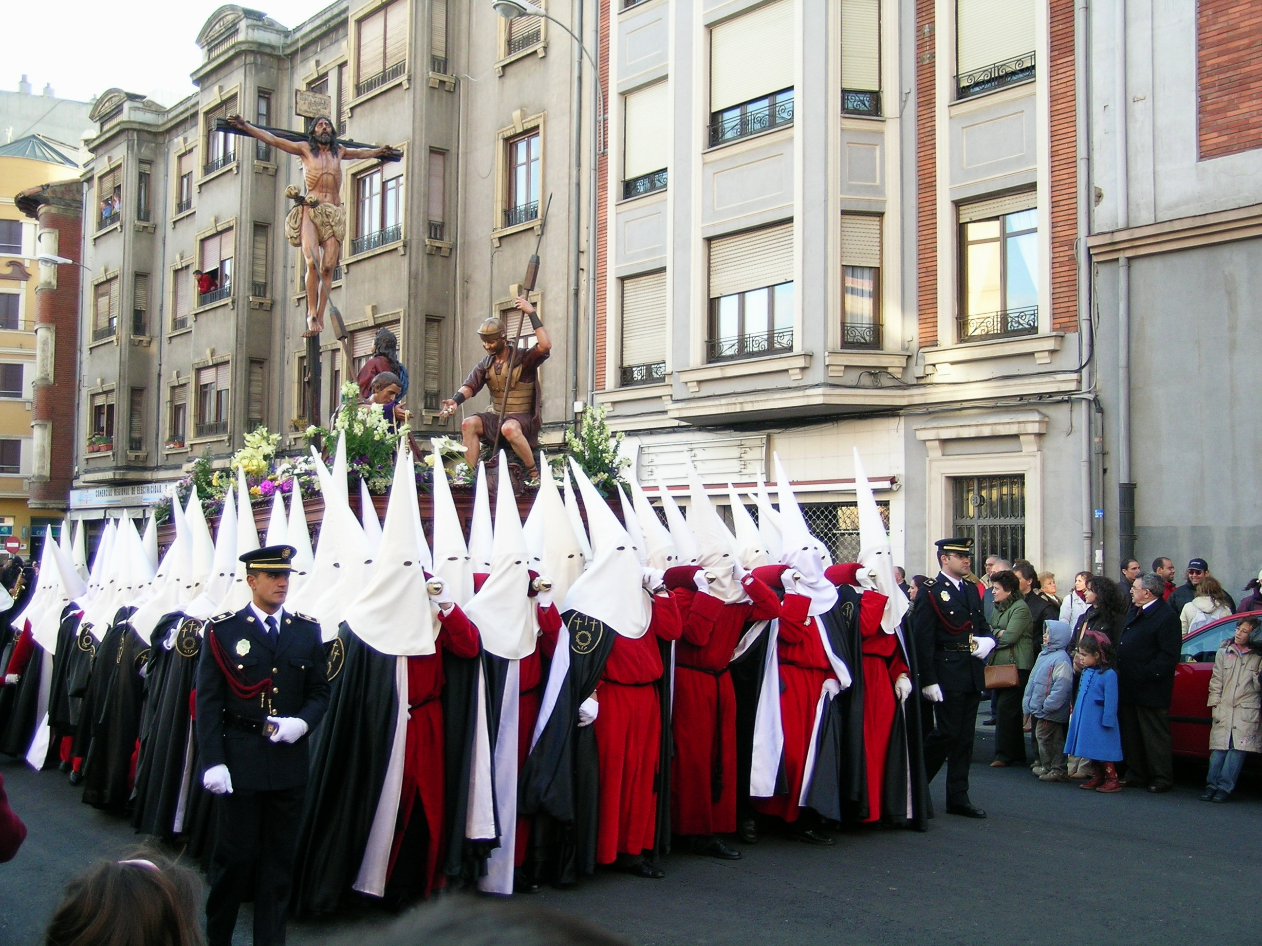 The seven words procession in León, Spain, during the Friday of Easter week 2007